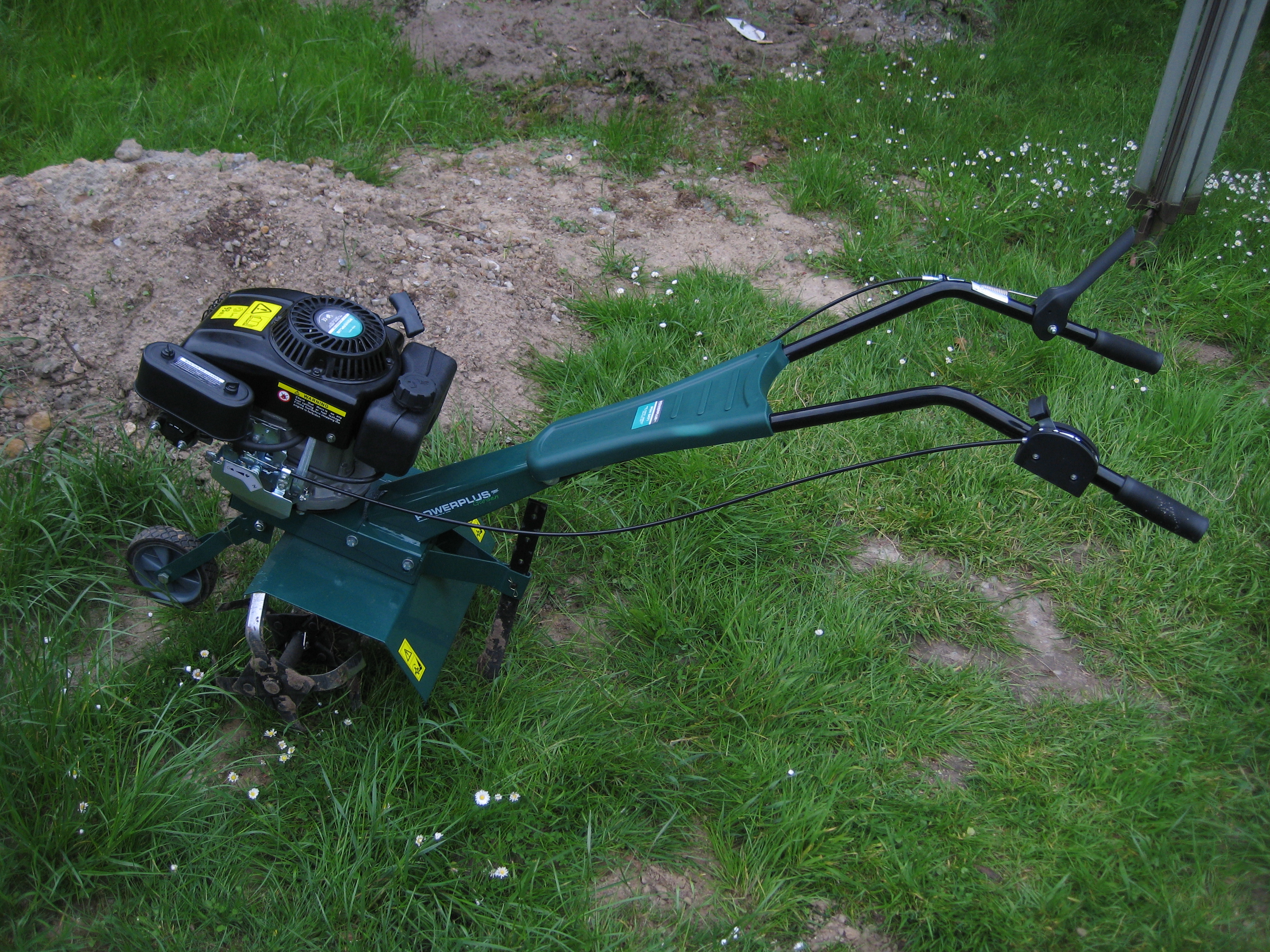 Gasoline Cultivator